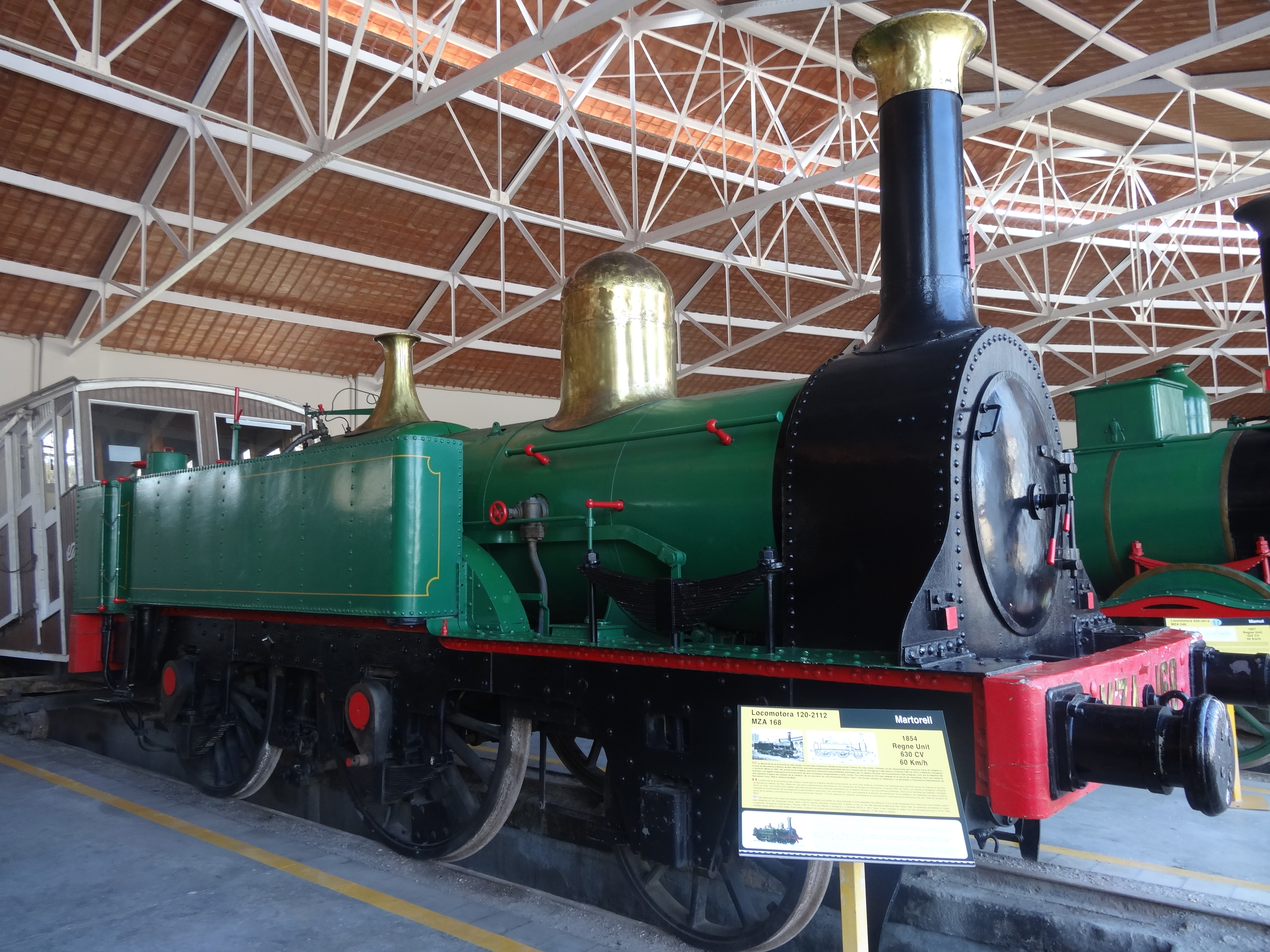 Railway museum (Vilanova i la Geltrú).